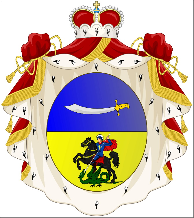 Coat of Arms of Turkestanowy family